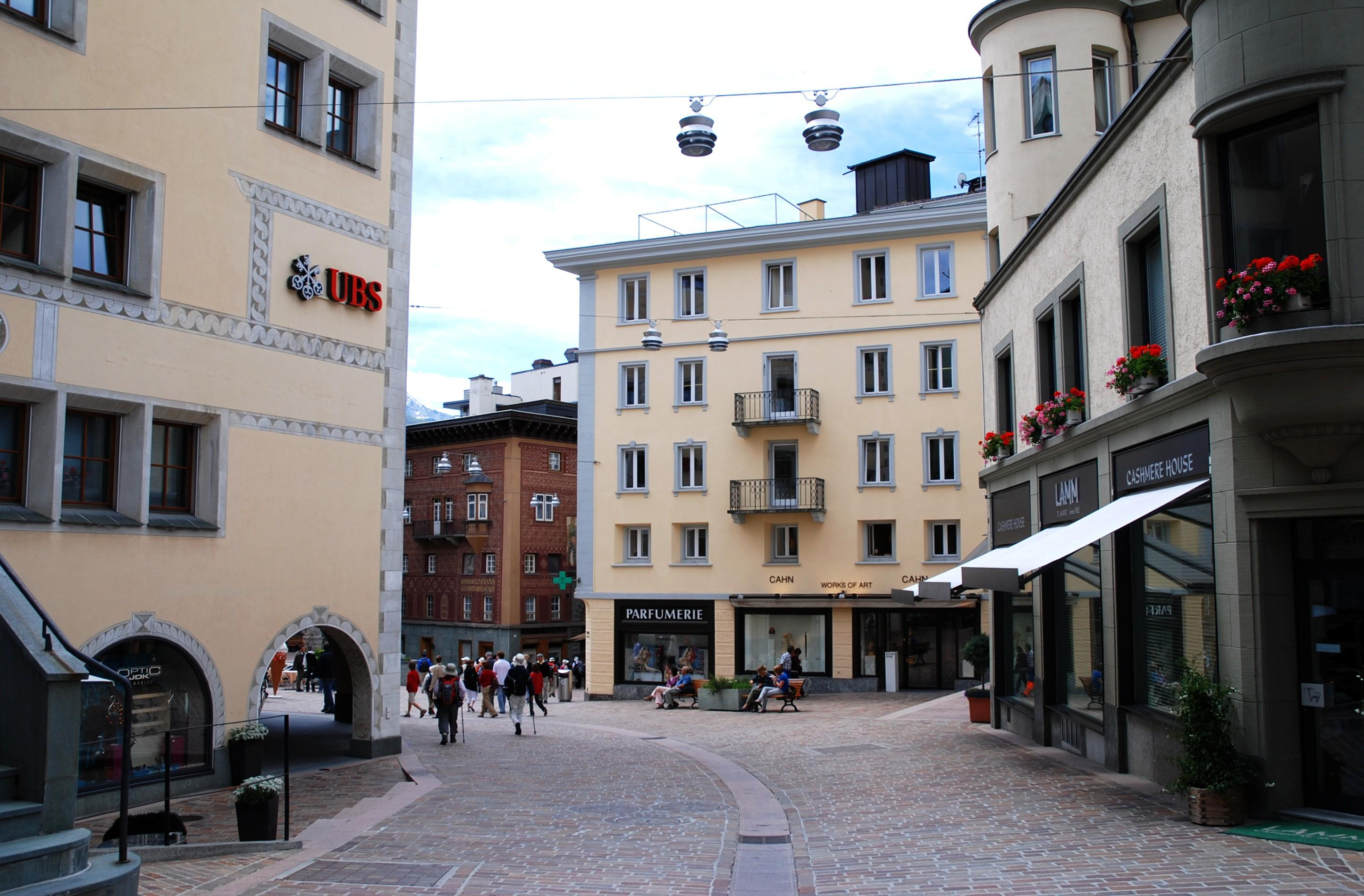 St. Moritz, Graubünden